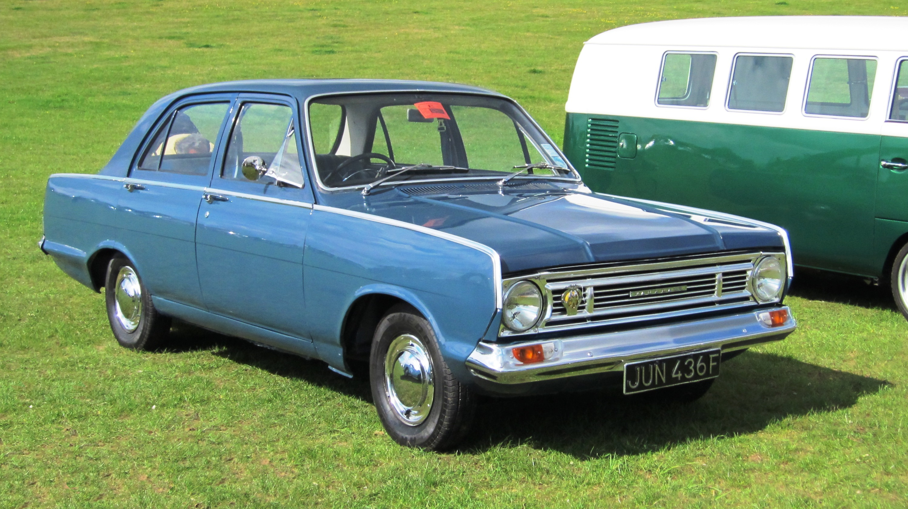 Vauxhall Victor 101 in Hertfordshire